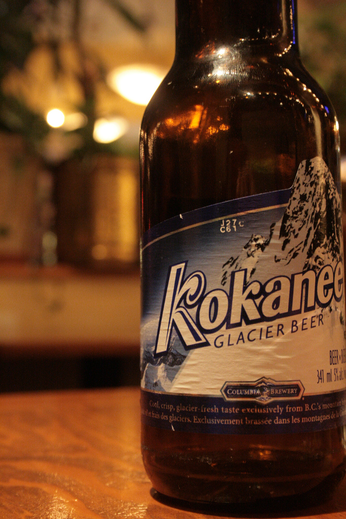 Kokanee Beer - Bootle